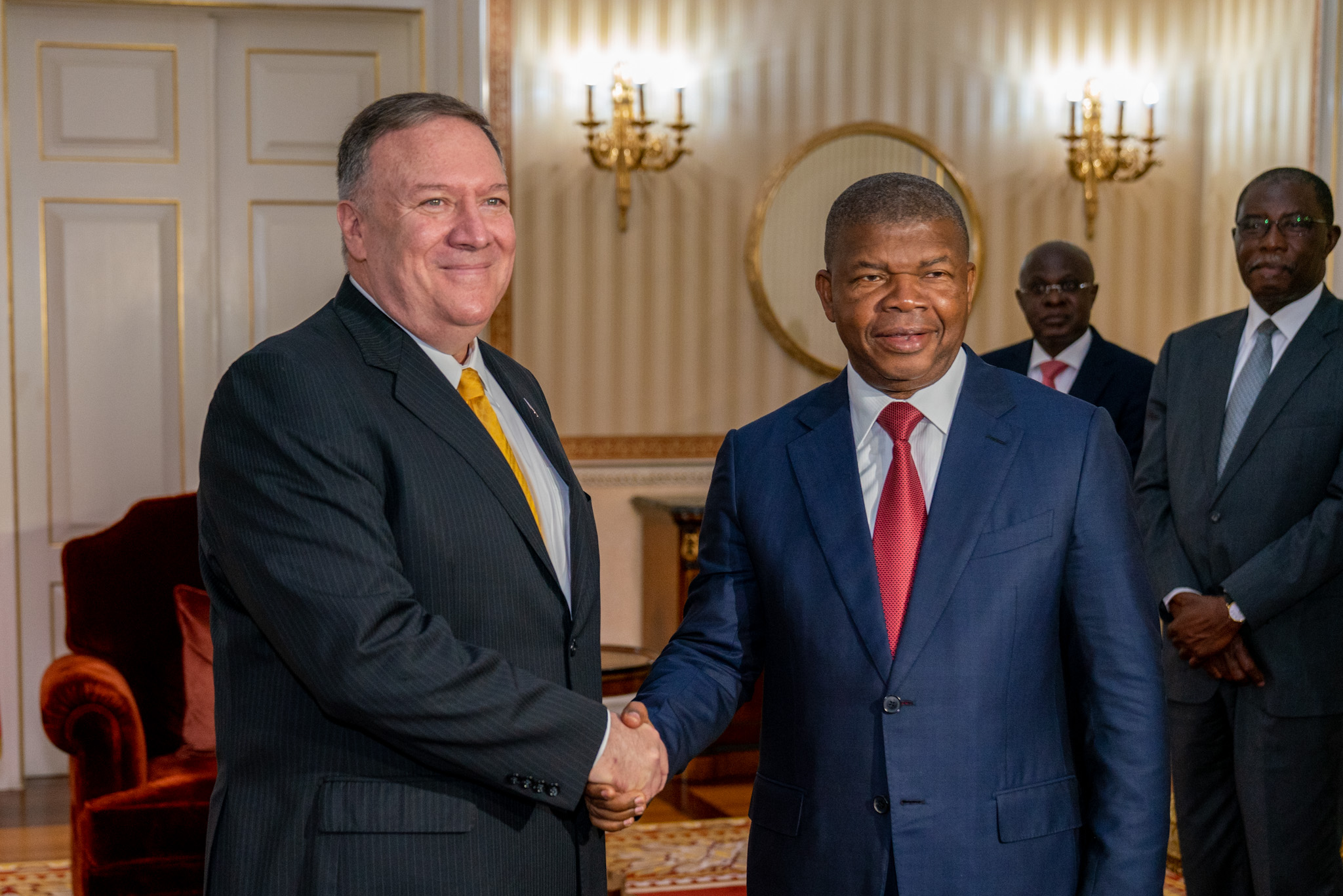 Secretary of State Michael R. Pompeo meets with Angolan President Joao Lourenço in Luanda, Angola, on February 17, 2020. [State Department Photo by Ron Przysucha/ Public Domain]